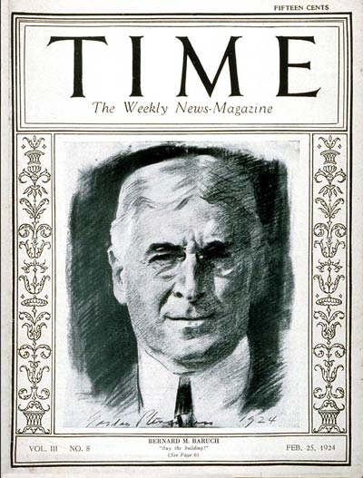 TIME Magazine Cover Featuring Bernard Baruch (25 Feb 1924)